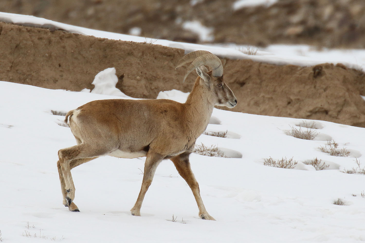 Urial (Ovis vignei) Ladakh, Inde